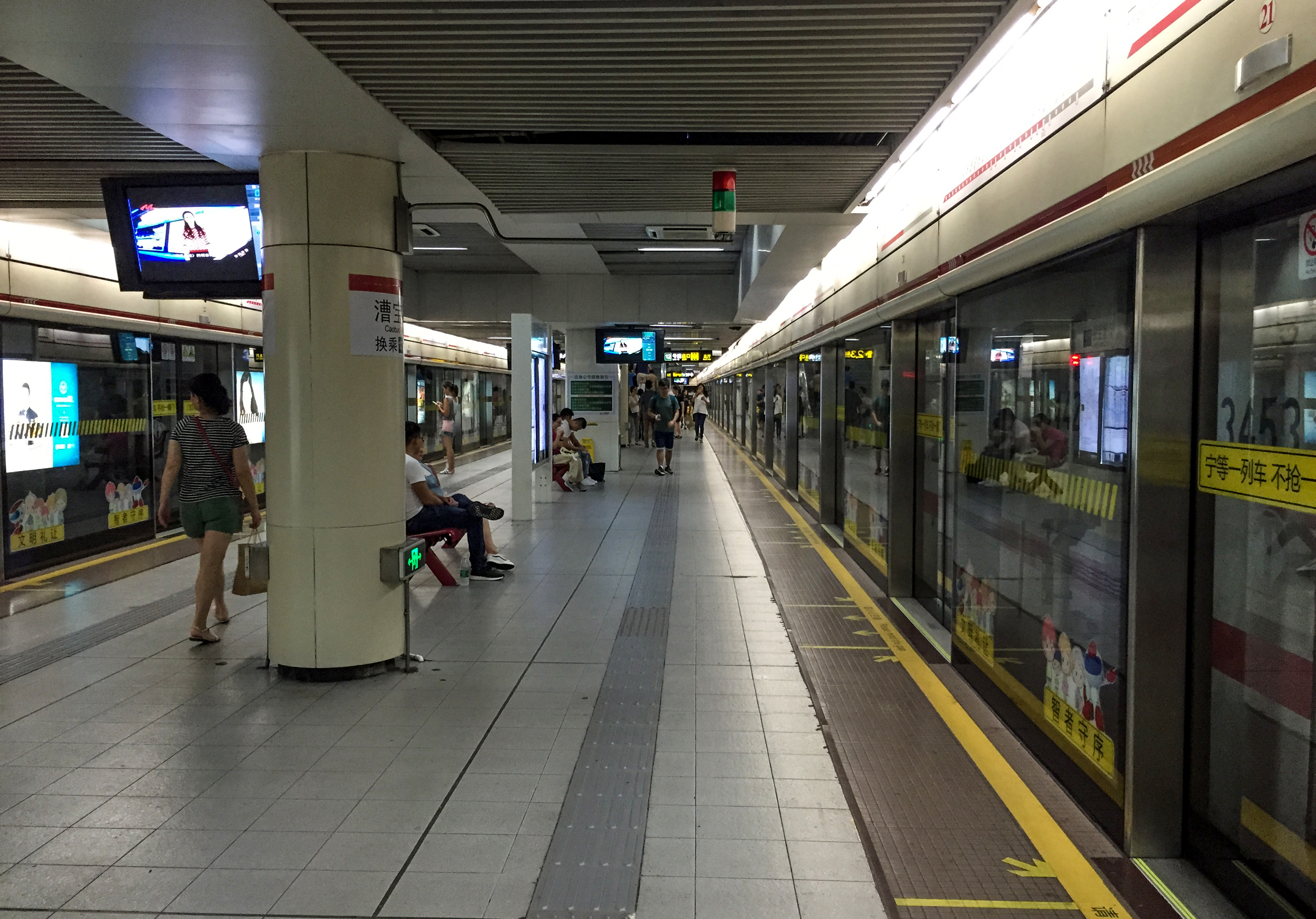 Some may misinterpret it as Taobao Road Station... jokingly. This platform is said to be built in the 1950s.